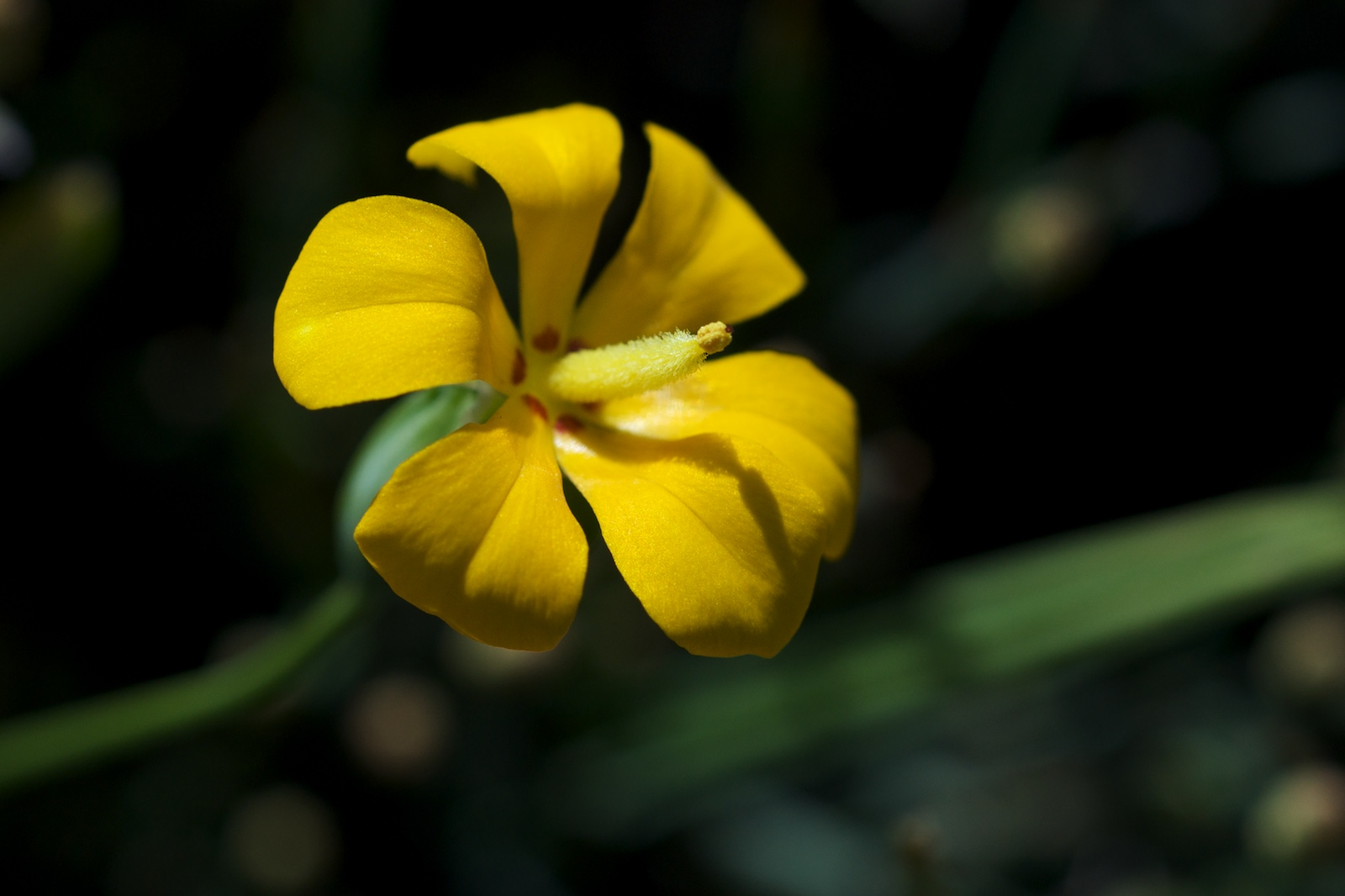 Photographed at the University of California, Berkeley Botanical Garden